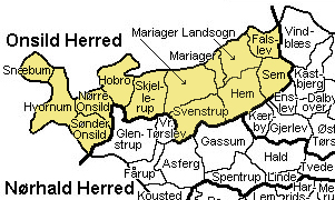 Onsild Herred, Randers Amt Source: Map by Svend-Erik Christiansen